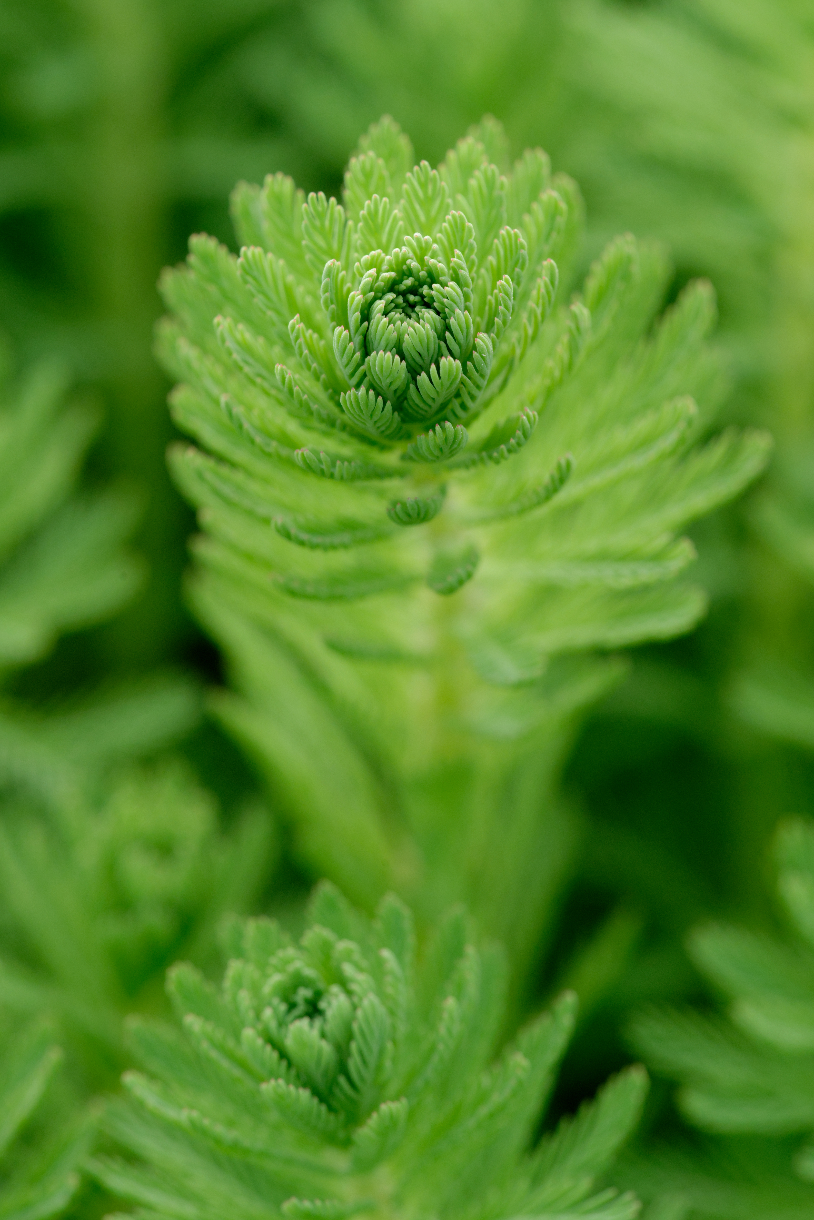 Parrot feather (Myriophyllum aquaticum) in Botanic school of the Jardin des Plantes, Paris.